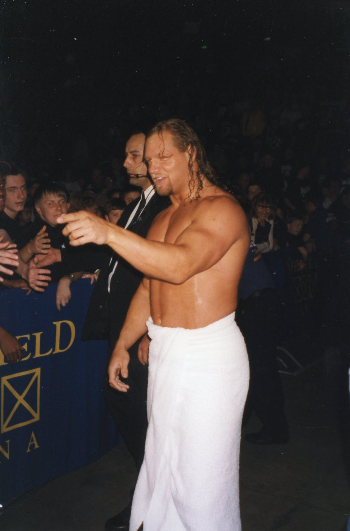 WWE - Sheffield 020499 (43)